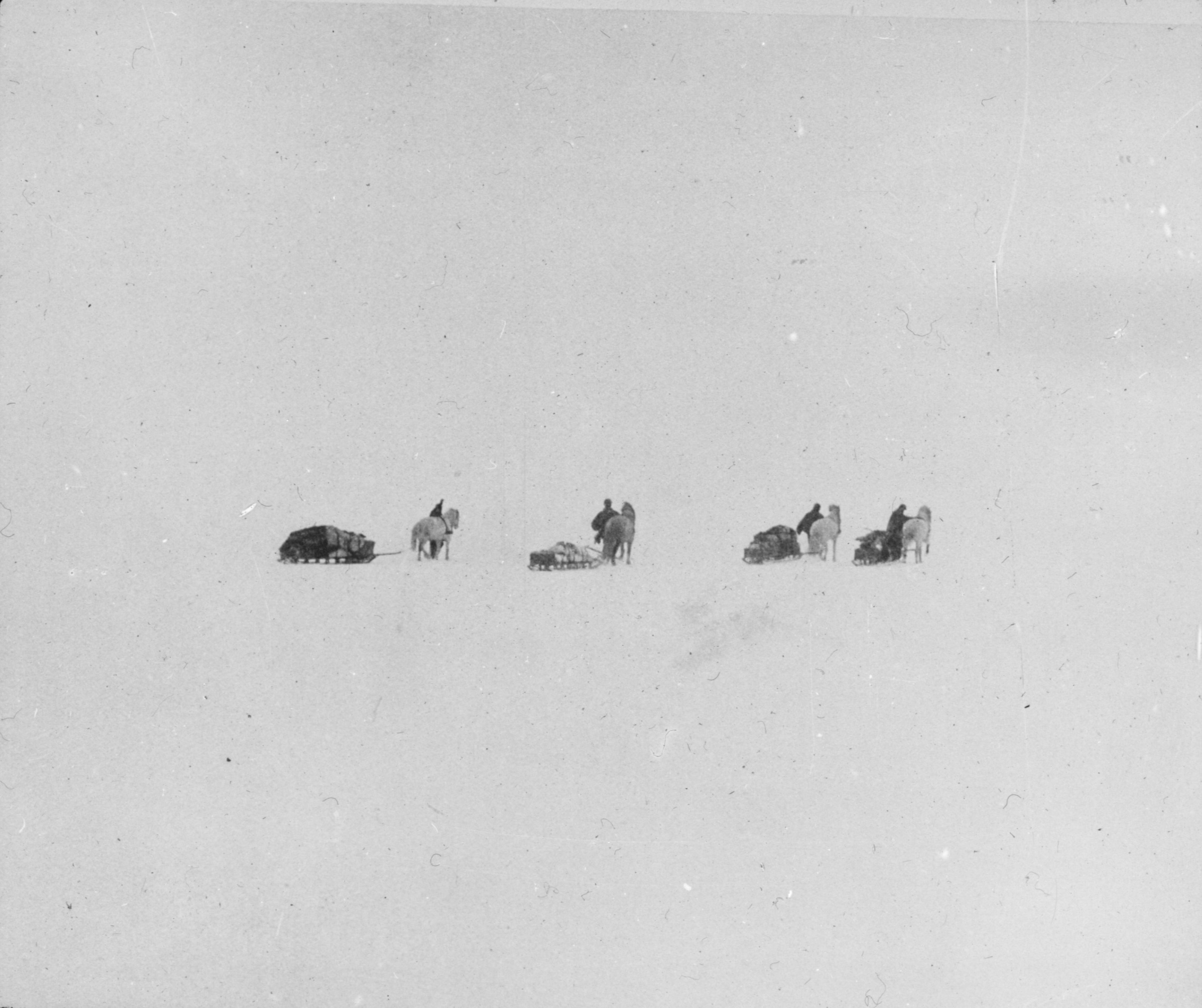 Photographs of the Nimrod Expedition (1907-09) to the Antarctic, led by Ernest Sheckleton